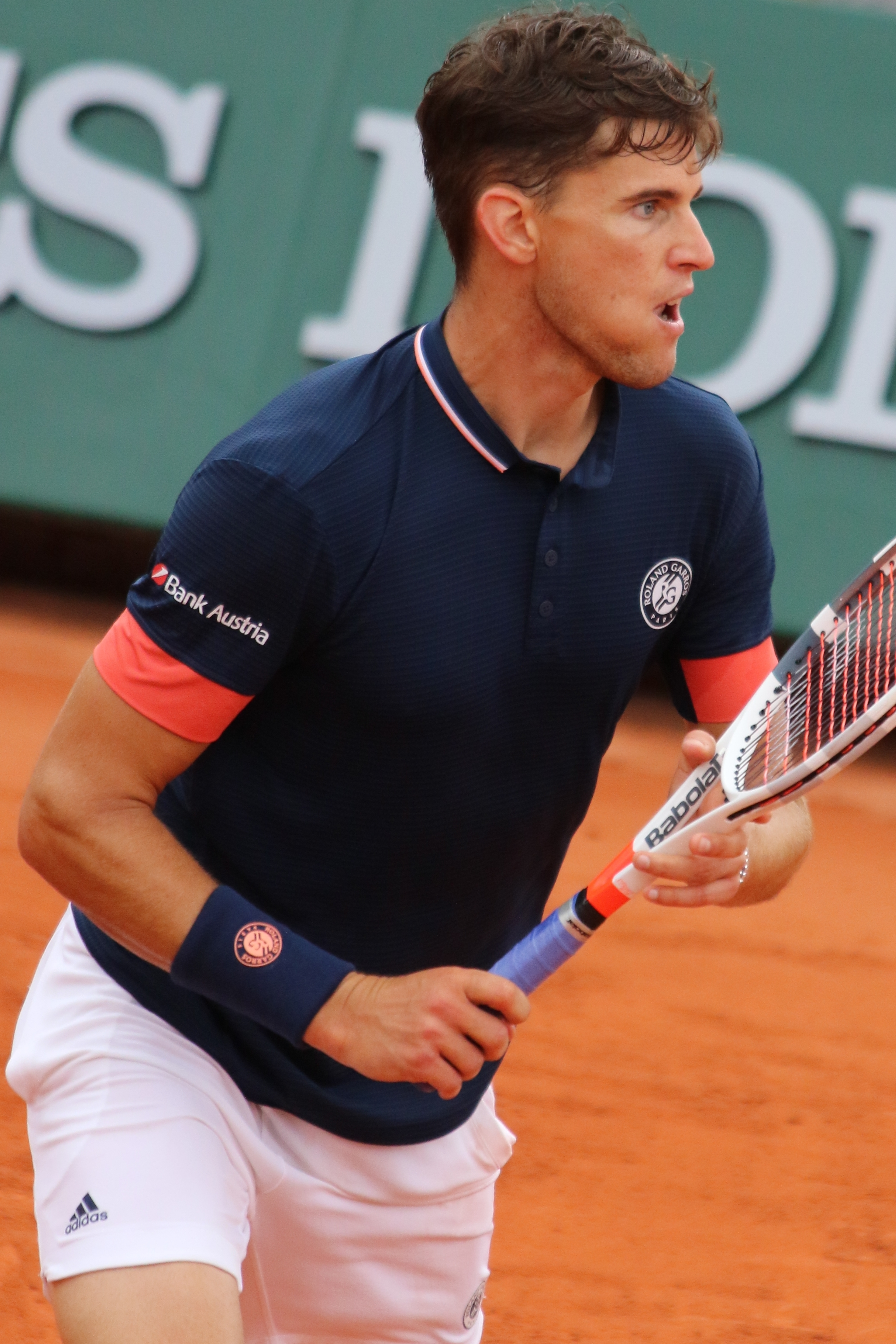 Thiem RG18 (25)